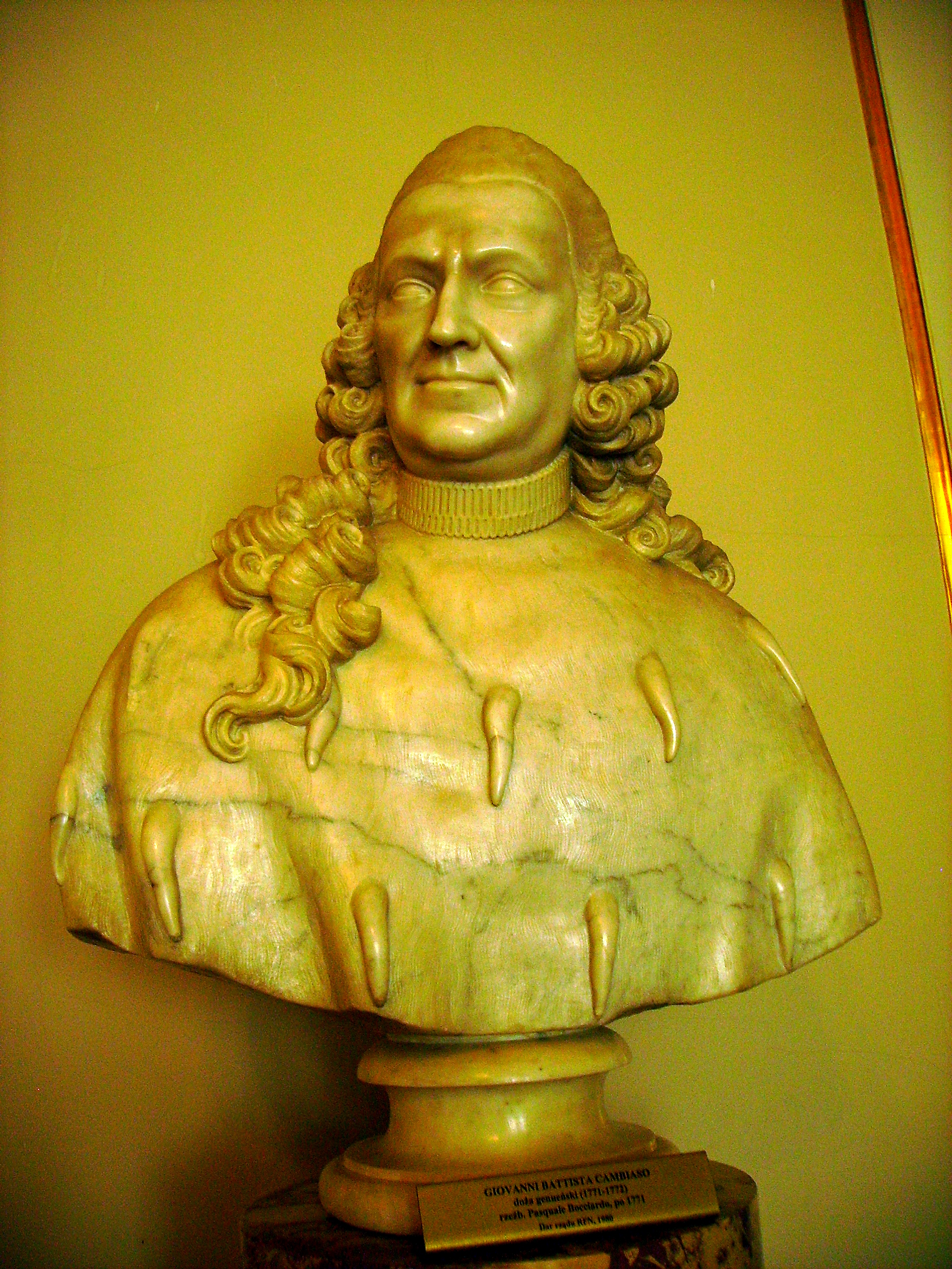 Bust of Giovanni Battista Cambiaso, by Pasquale Bocciardo, after 1771.